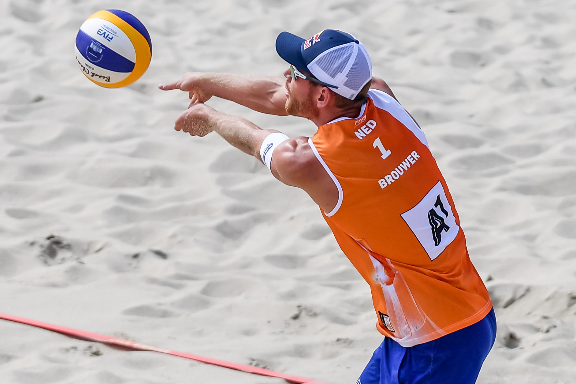 30/7/17, Vienna, Austria, sports, beach volleyball, FIVB Beach Volleyball World Championships.